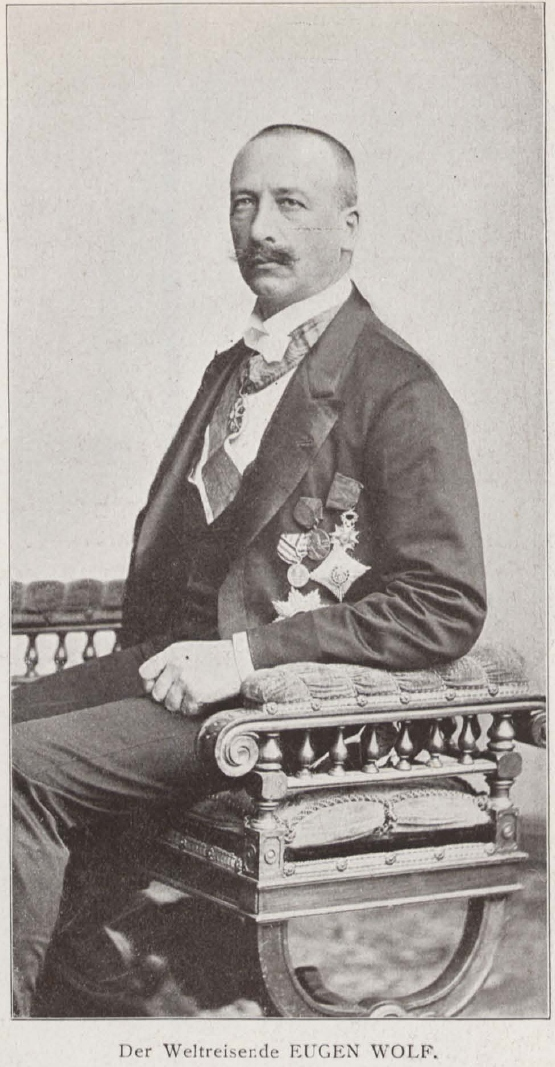 Eugen Wolf (1850-1912), German journalist and traveller. Photo 1899.